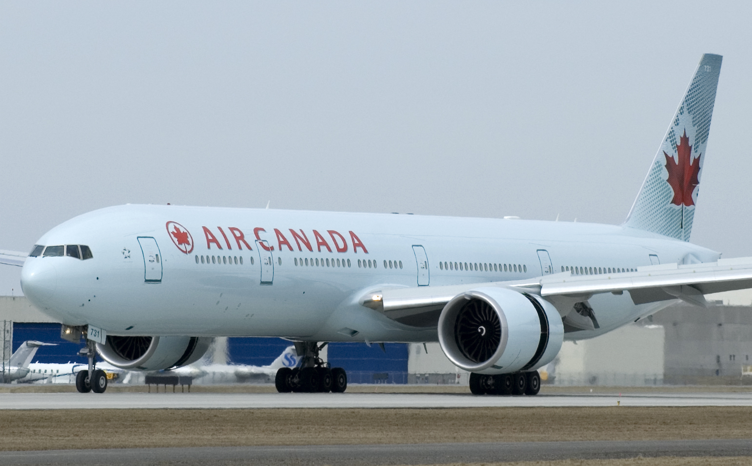 Air Canada 777-300 landing, Montreal-Trudeau.